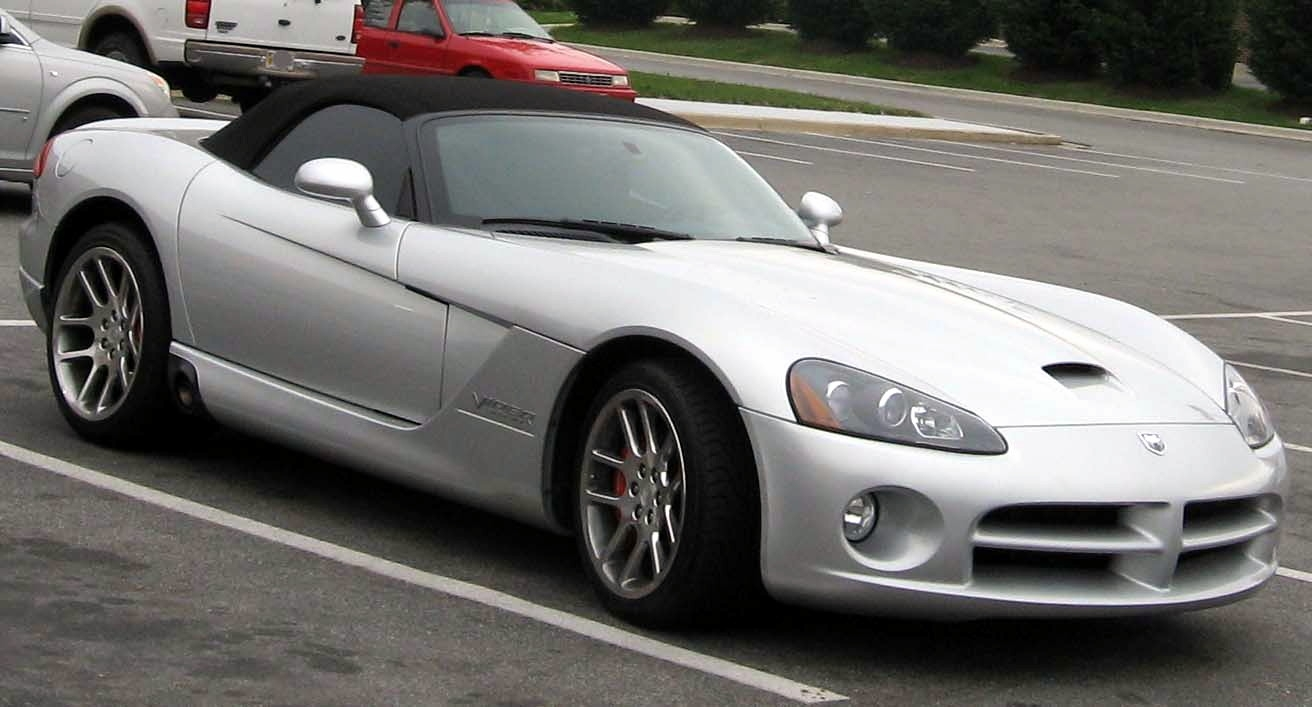 2003-2007 Dodge Viper photographed in USA.